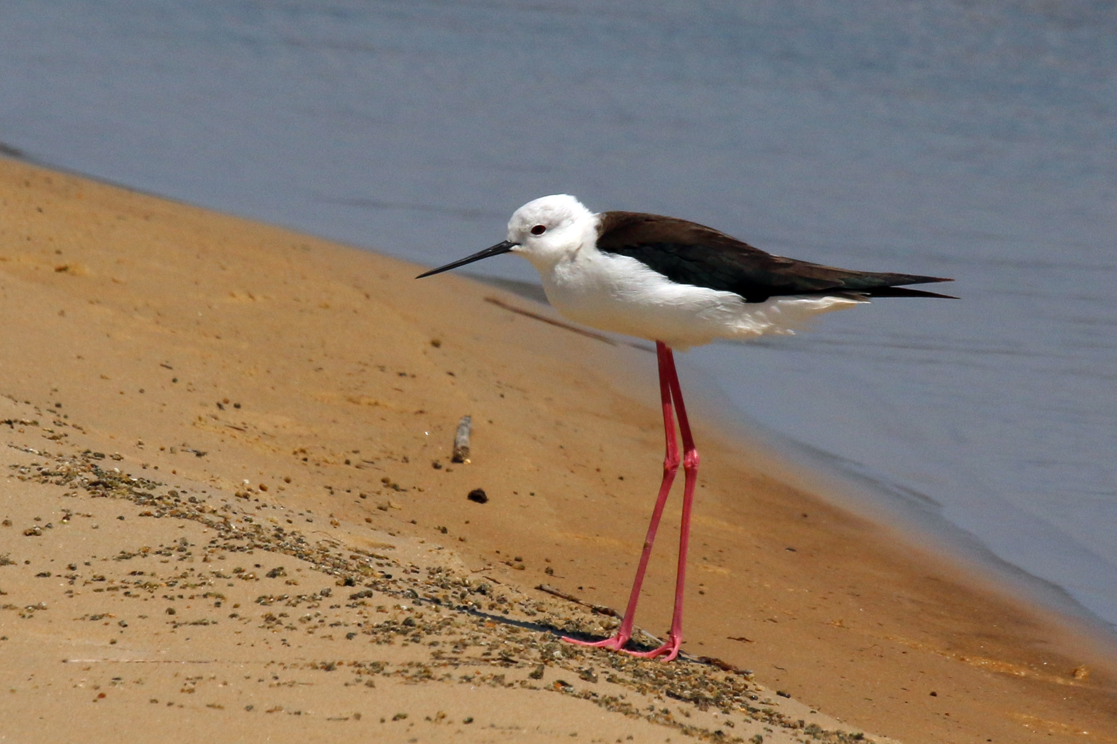 Black-winged stilt (Himantopus himantopus), iSimangaliso Wetland Park, KwaZulu Natal, South Africa